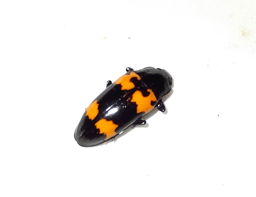 Pleasing Fungus Beetle (Megalodacne heros) in South Knoxville, Tennessee.